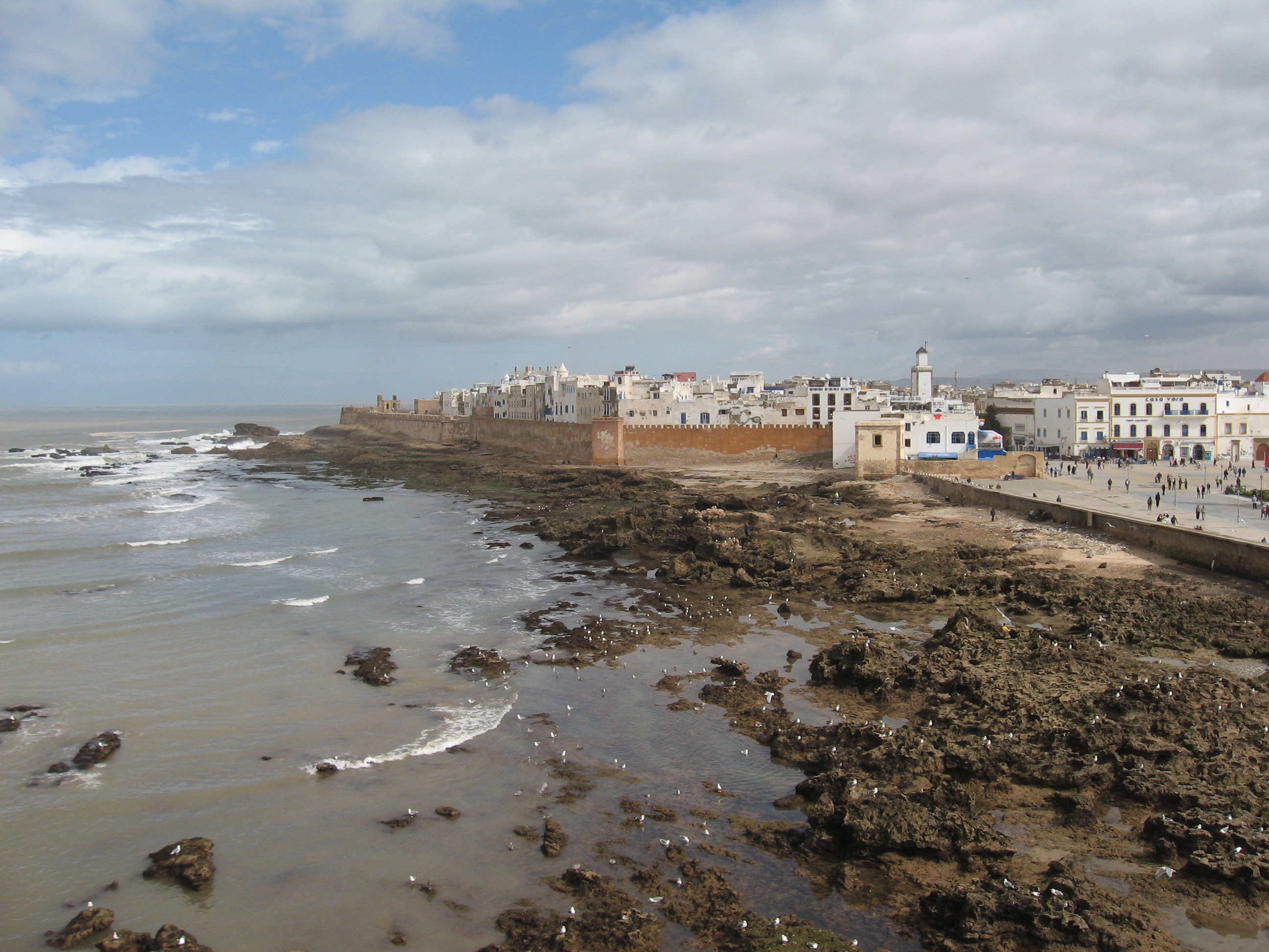 Ramparts of Essaouira. My own work taken while on vacation in Morocco Nov 6, 2008